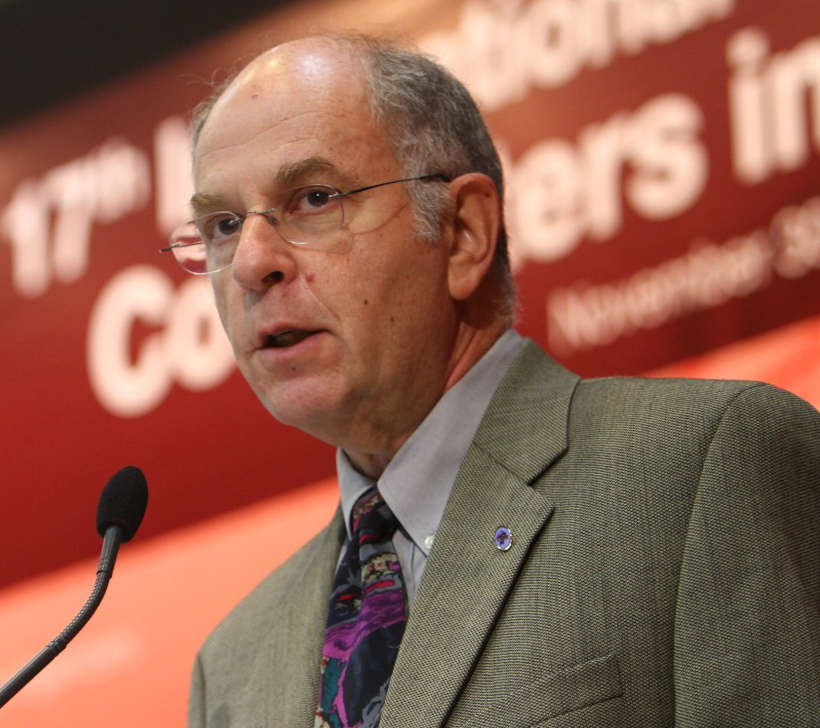 photo of Gerry Stahl giving keynote at ICCE